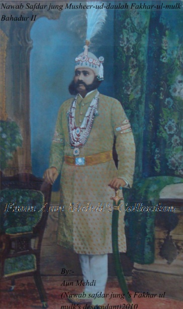 Nawab Safdar Jung Musheer-ud-Daulah Fakhar-ul-mulk II.